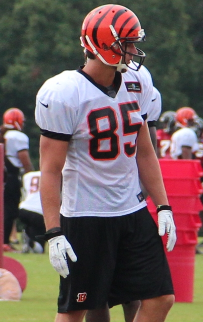 Tyler Eifert in 2013